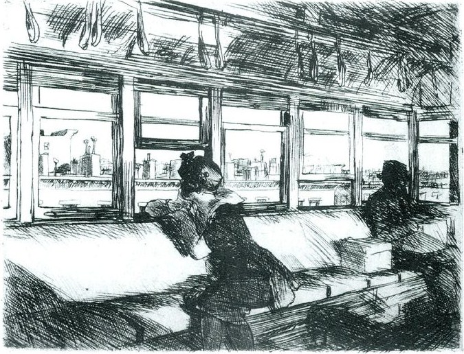 Etching of a couple on a train.